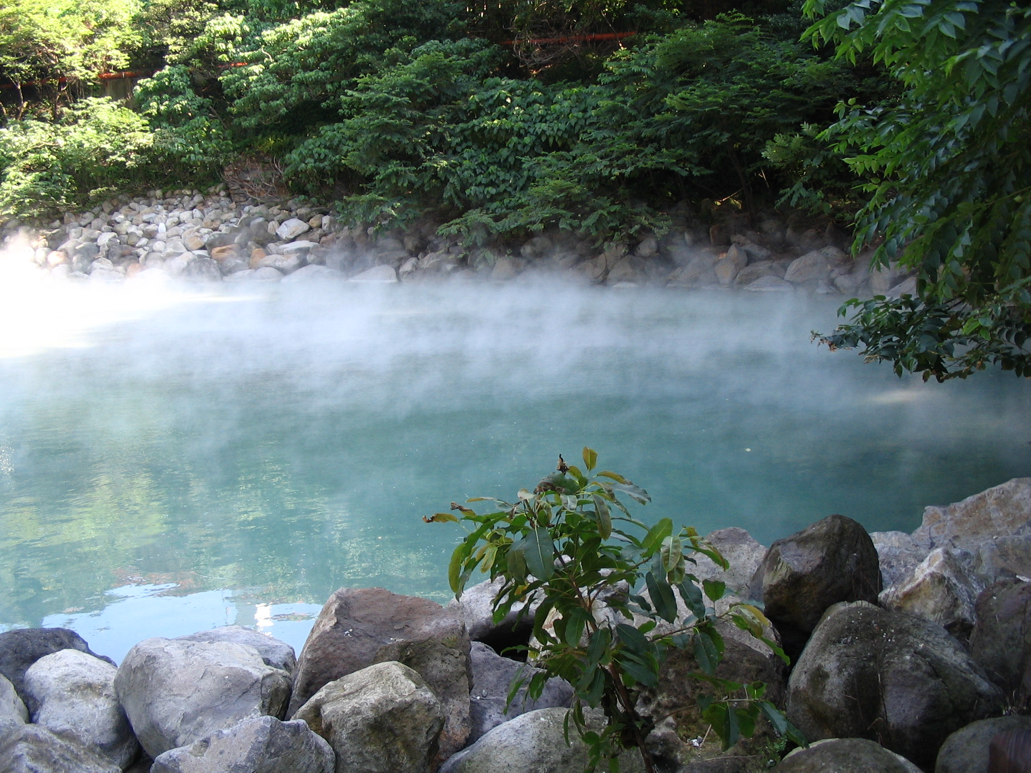 Photo of Beitou Hell Valley